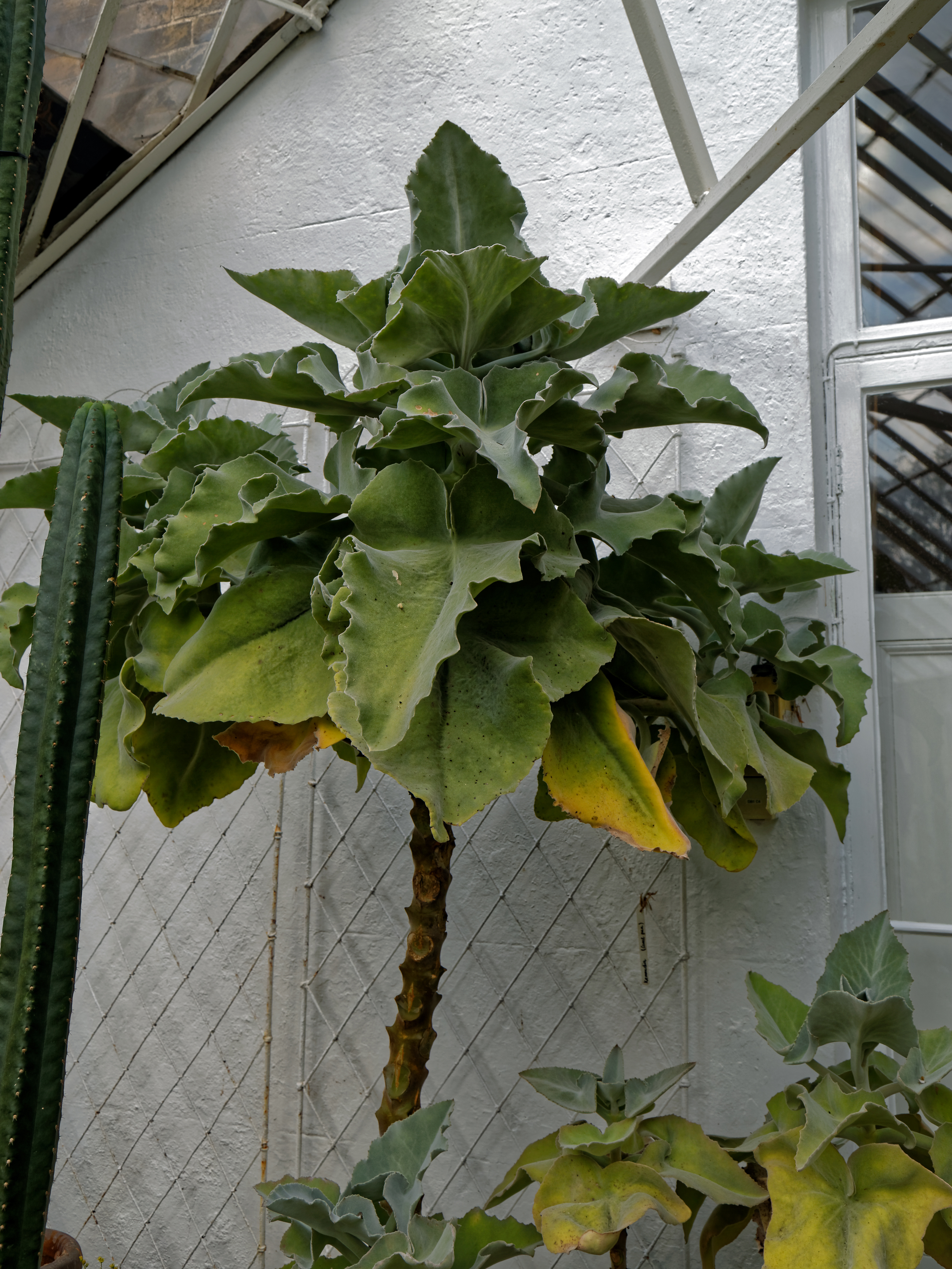 Kalanchoe beharensis (aka: elephant's ear kalanchoe; felt bush; feltbush), in the conservatory attached to the south face of of Grade II listed c.1819 Myddelton House, in a garden developed by Edward Augustus Bowles (1865 – 1954), botanist, horticulturalist and Vice President of the Royal Horticultural Society, in Bulls Cross, Enfield, London, England.Camera: Canon EOS 6D with Canon EF 24-105mm F4L IS USM lens.Software: RAW file lens-corrected, optimized and converted with DxO OpticsPro 11 Elite, and further optimized with Adobe Photoshop CS2.